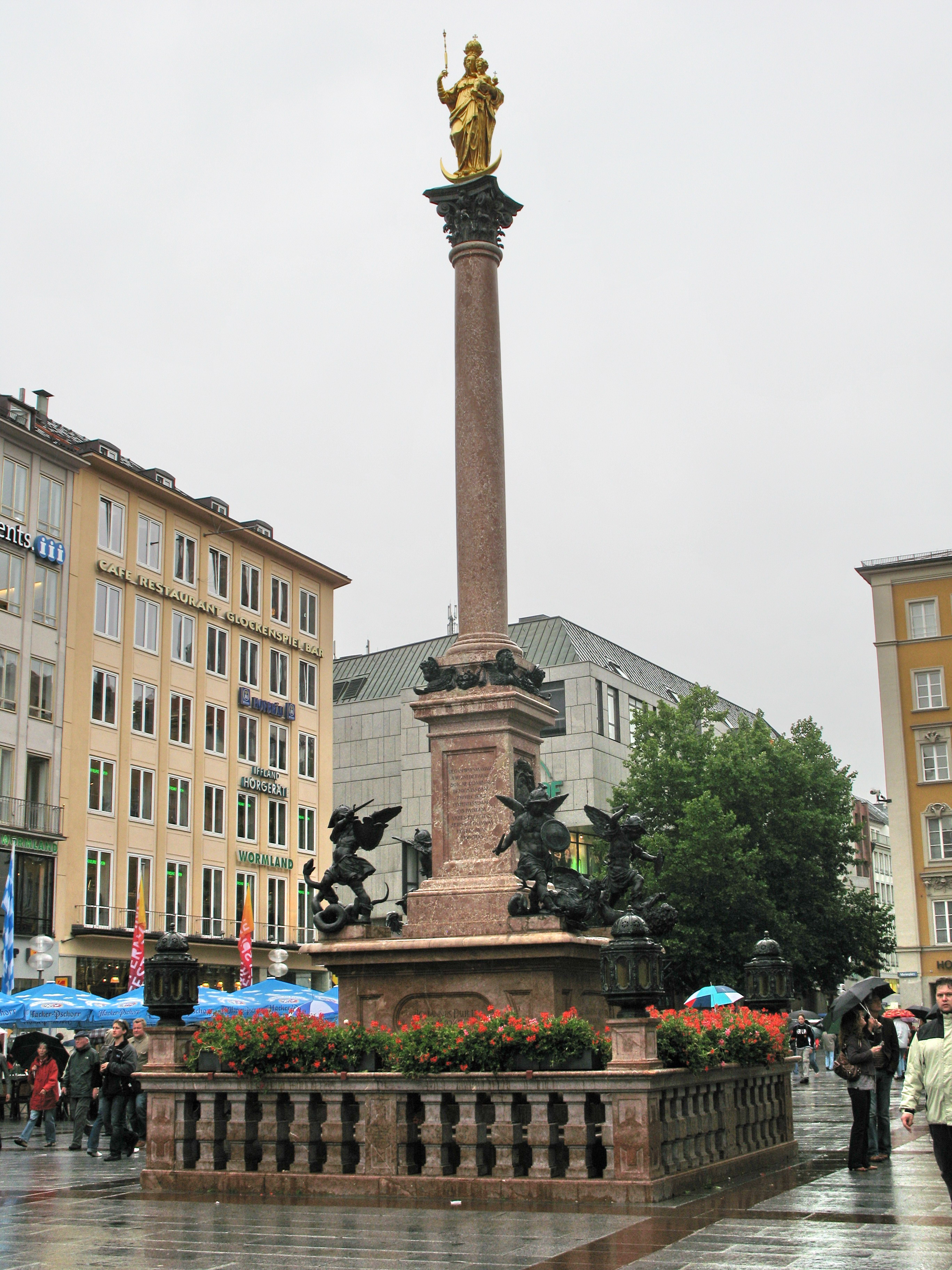 Mary Column, Munich, Germany